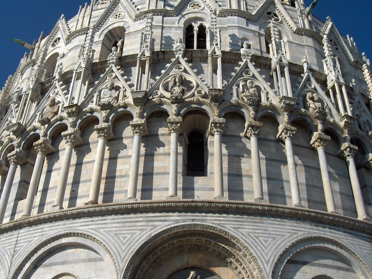 Pisa, Italy: dome of the baptistry - loggia by Nicola Pisano. Own work - photo made by Georges Jansoone on 10 October 2005